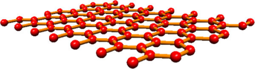 A molecular model of the structure of graphene